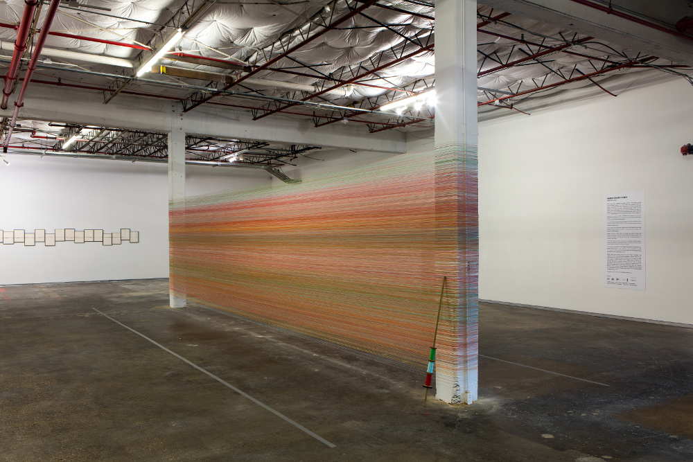 Walk the Line (2015) Performance with colored yarn 2,019km Dallas Contemporary (One of four photos)